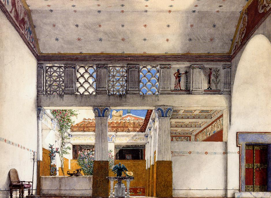 Interior of Caius Martius' House